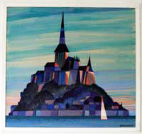 Mont Saint Michel author: Dries van den Elzen en Gabriel Smulders